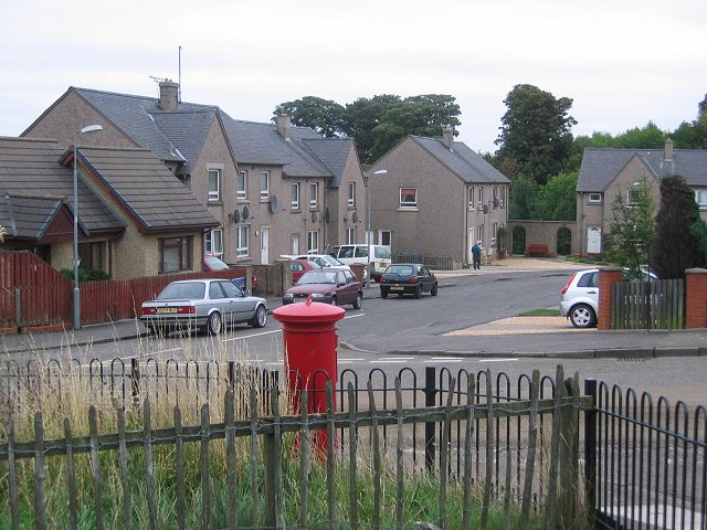 Bridgend. Not the famed one that was home to JPR Williams, but an old oil village in the midst of West Lothian farmland. Since the oil mines closed, a lot of municipal housing has been built here, the population is now about 800.